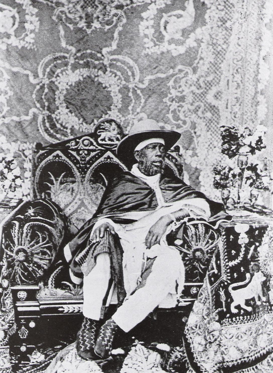 Menelik I